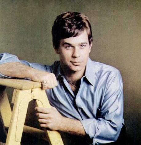 Trade ad for Lou Christie's single "Lightnin' Strikes".To better adapt it to his respective Wikipedia article, the ad was cropped and cleaned in a graphics editing program. The original can be viewed at the source below.